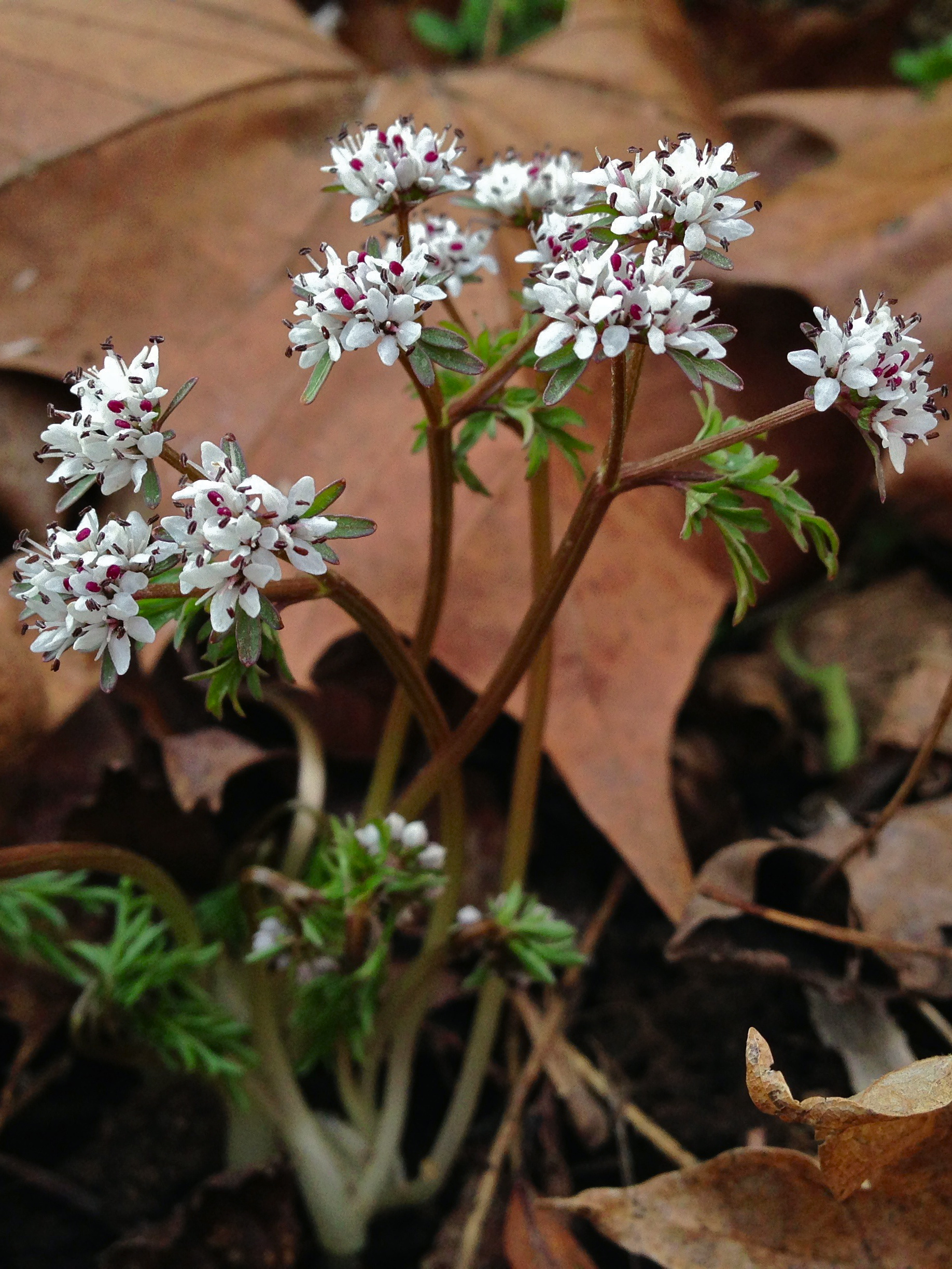 Photo of Erigenia bulbosa in flower. This is a native plant growing wild in the C & O Canal National Historical Park, Montgomery county Maryland, USA. This species is a member of the Apiaceae family.